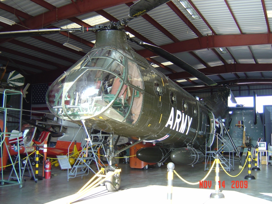 A picture of the only H-21 still flying at the Classic Rotors Museum Hanger.